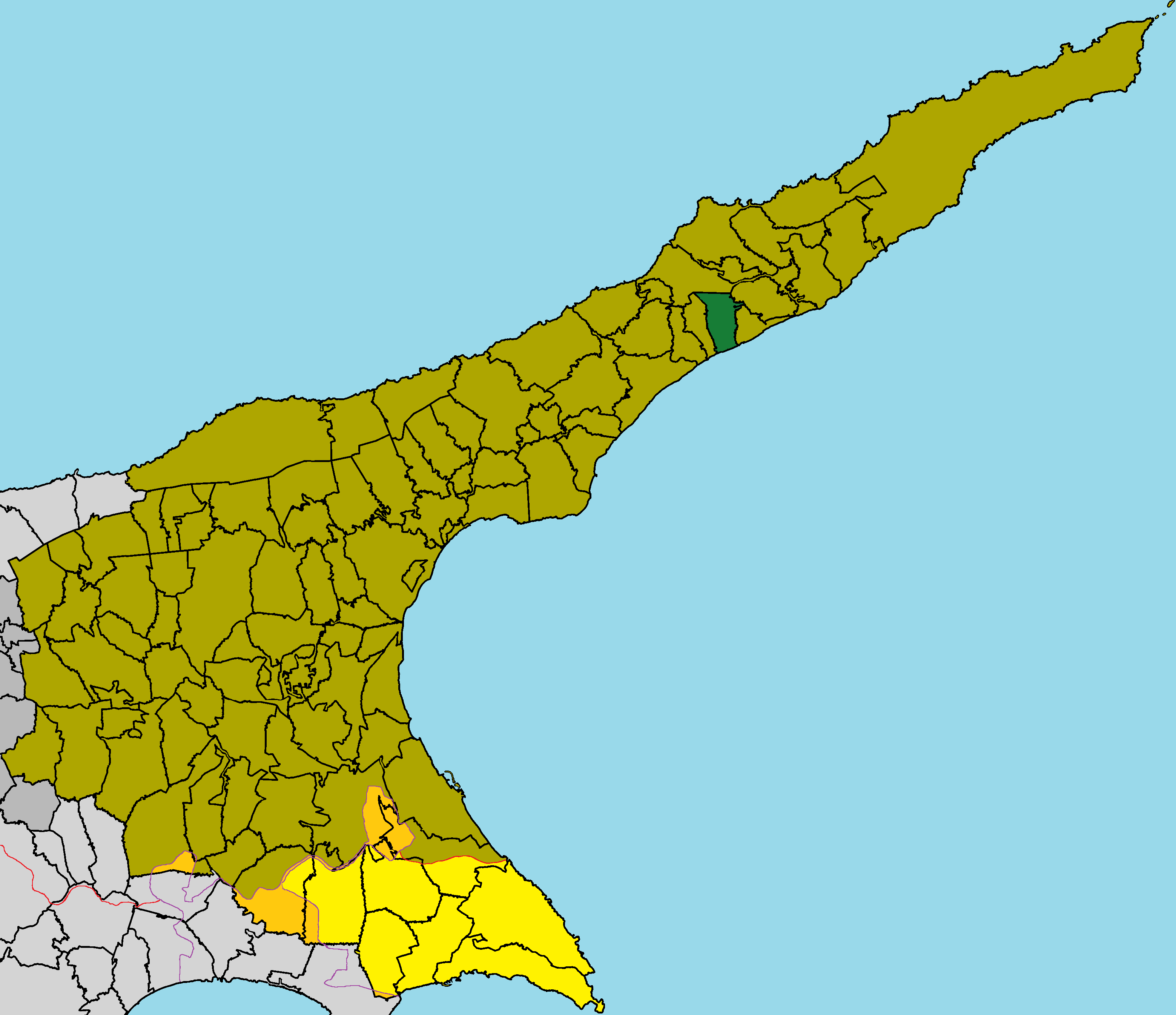 Vathylakas in Famagusta District (de jure).